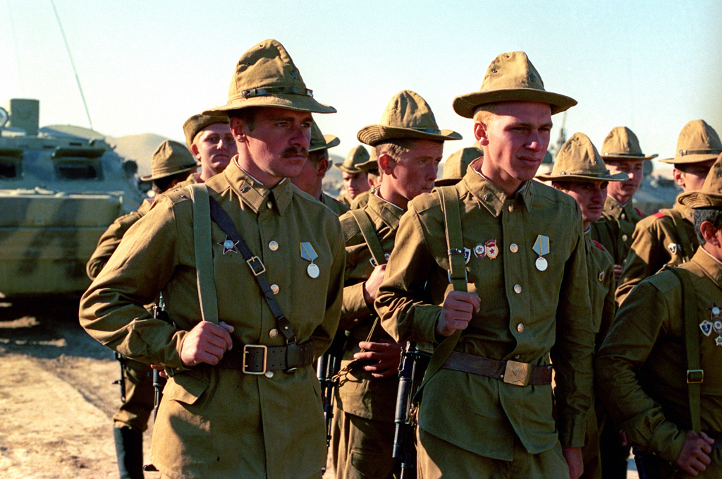 “First stage in the Soviet troop withdrawal from Afghanistan”. Soviet soldiers-internationalists returning home from the Democratic Republic of Afghanistan.